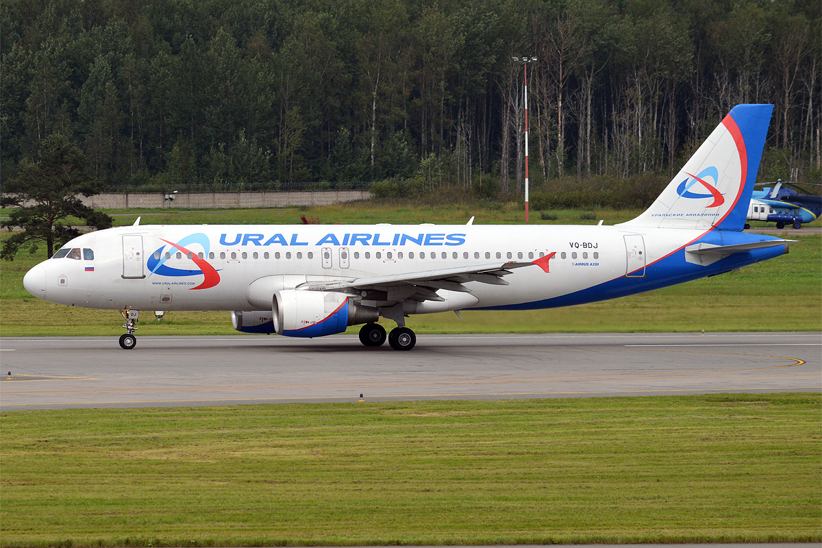 Ural Airlines, VQ-BDJ, Airbus A320-214